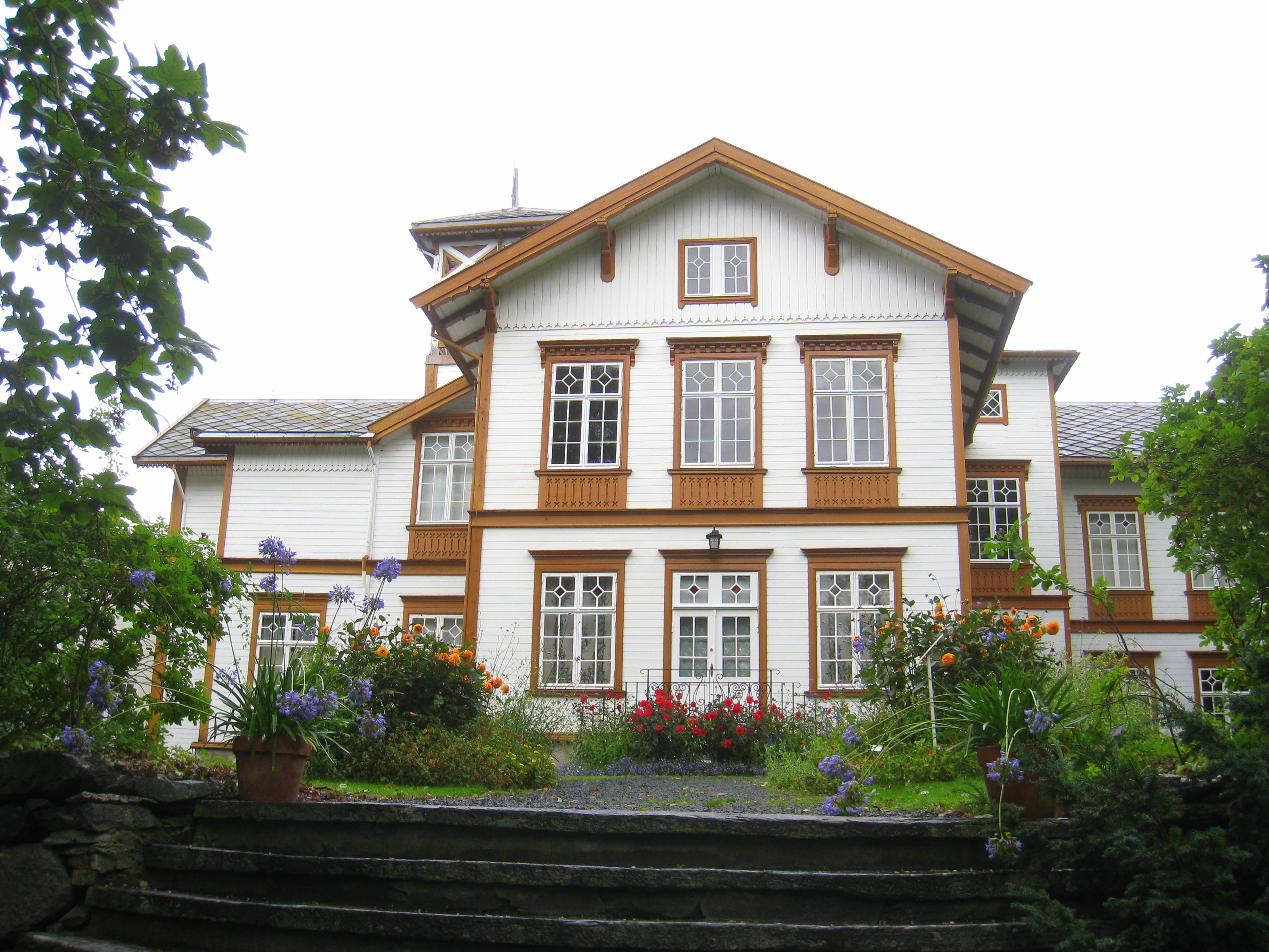 Ringve Museum, Trondheim, Norway.